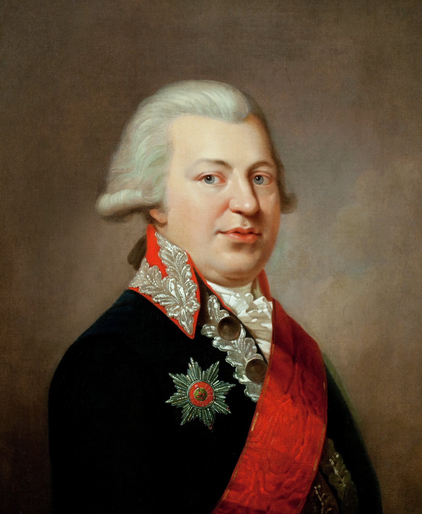 Prince Stepan Kurakin (1754-1805), wearing the Order of St. Ann (founded in 1797), was an army major general during the reign of Catherine II, a courtier, a philanthropist, and a son of one of the oldest noble families in Russia. This painting was discovered in a brochure advertising a small auction house in North Carolina. Its subject was originally identified as a nineteenth-century gentleman, possibly even George III of England. A Hillwood curator theorized that the sitter was Stepan Kurakin based on the order and the uniform that he wears. An identical portrait at a museum in Tver, Russia confirmed the sitter's identity. The painting is a bust-length portrait of Stepan Borisovich Kurakin (1754-1805) facing to the right. He wears a navy blue uniform with a high red collar, heavily embroidered with gold, and gold embroidery line the lapels of his coat. He wears the red ribbon of the Order of St. Anne over his proper left shoulder and the Star of the Order of St. Anne on his coat. His powdered hair is arranged in the style of the 1790s, gathered with a ribbon at the back of the neck and curled over the ears.